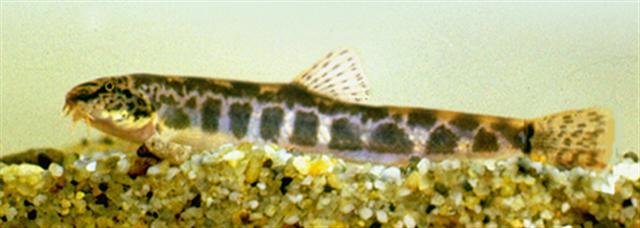 Sabanejewia bulgarica photographed in Tiszafüred, river Tisza, Hungary.